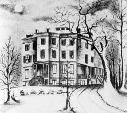 Drawing of Clement Clarke Moore's "Old Chelsea Mansion House" from Moore's St. Nicholas, the first color illustrated version of the poem, with illuminations by Mary C. Ogden, the poet's daughter, as a gift to her husband in 1855.